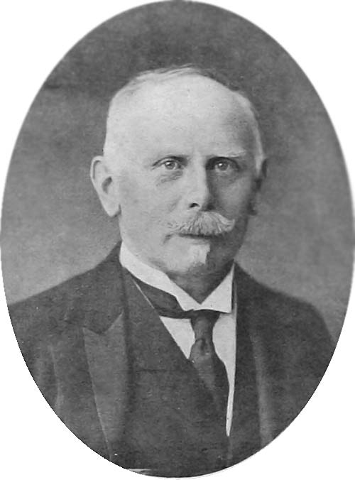 The Danish architect Heinrich Wenck